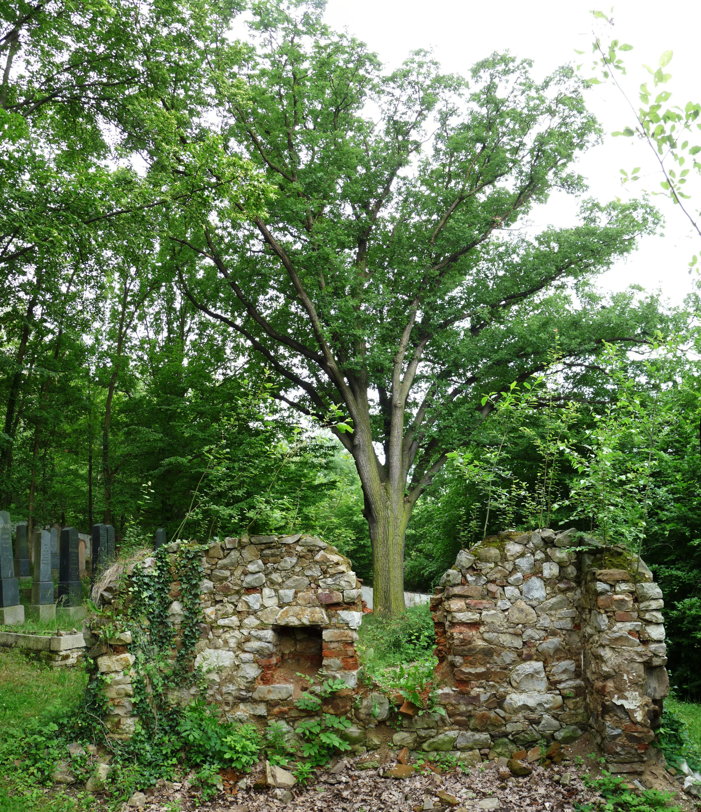 Famous oak in the Jewish cemetery near the villages of Běštín and Hostomice, Beroun District, Central Bohemian Region, Czech Republic.